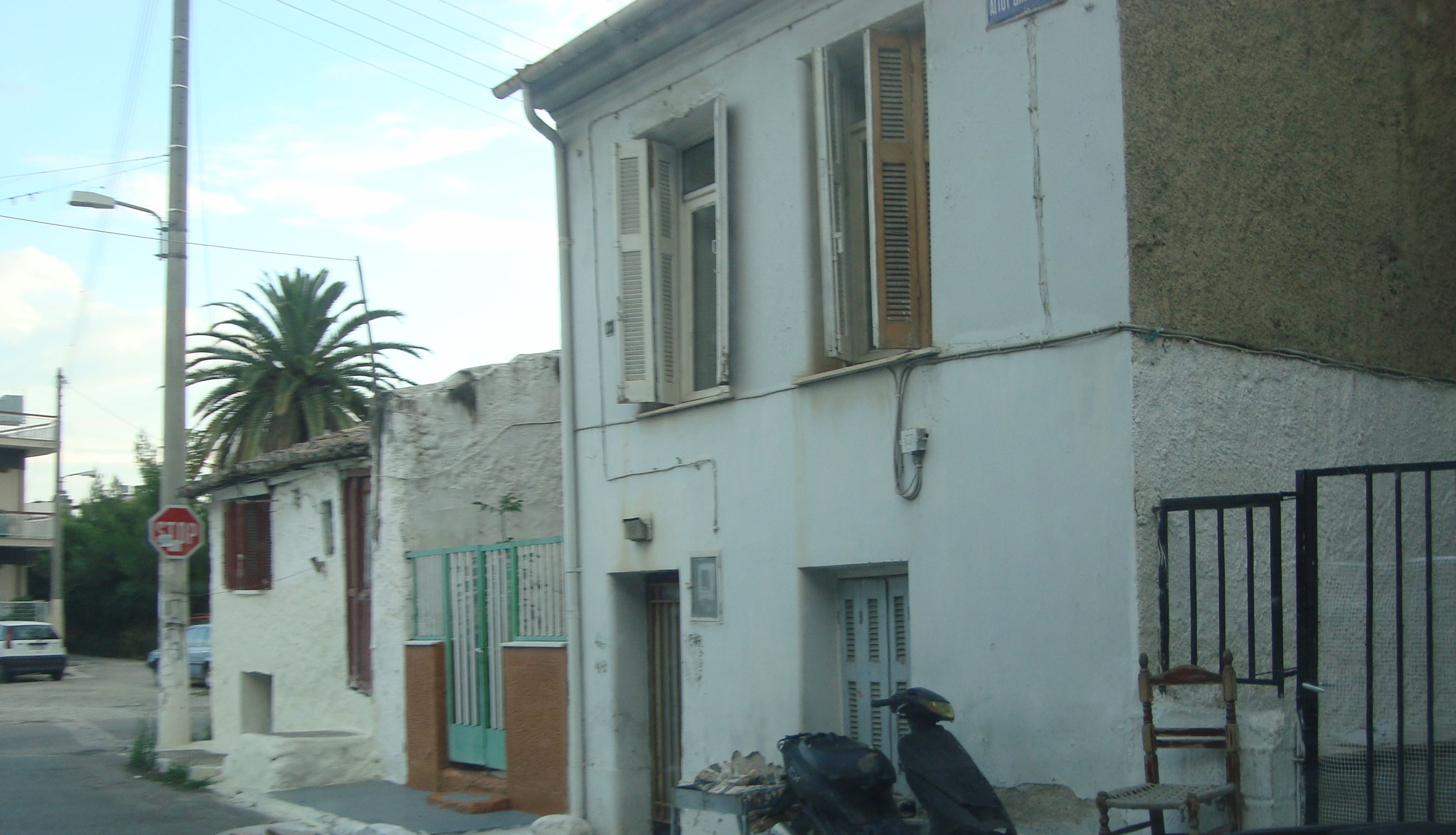 Giftika District of Patras